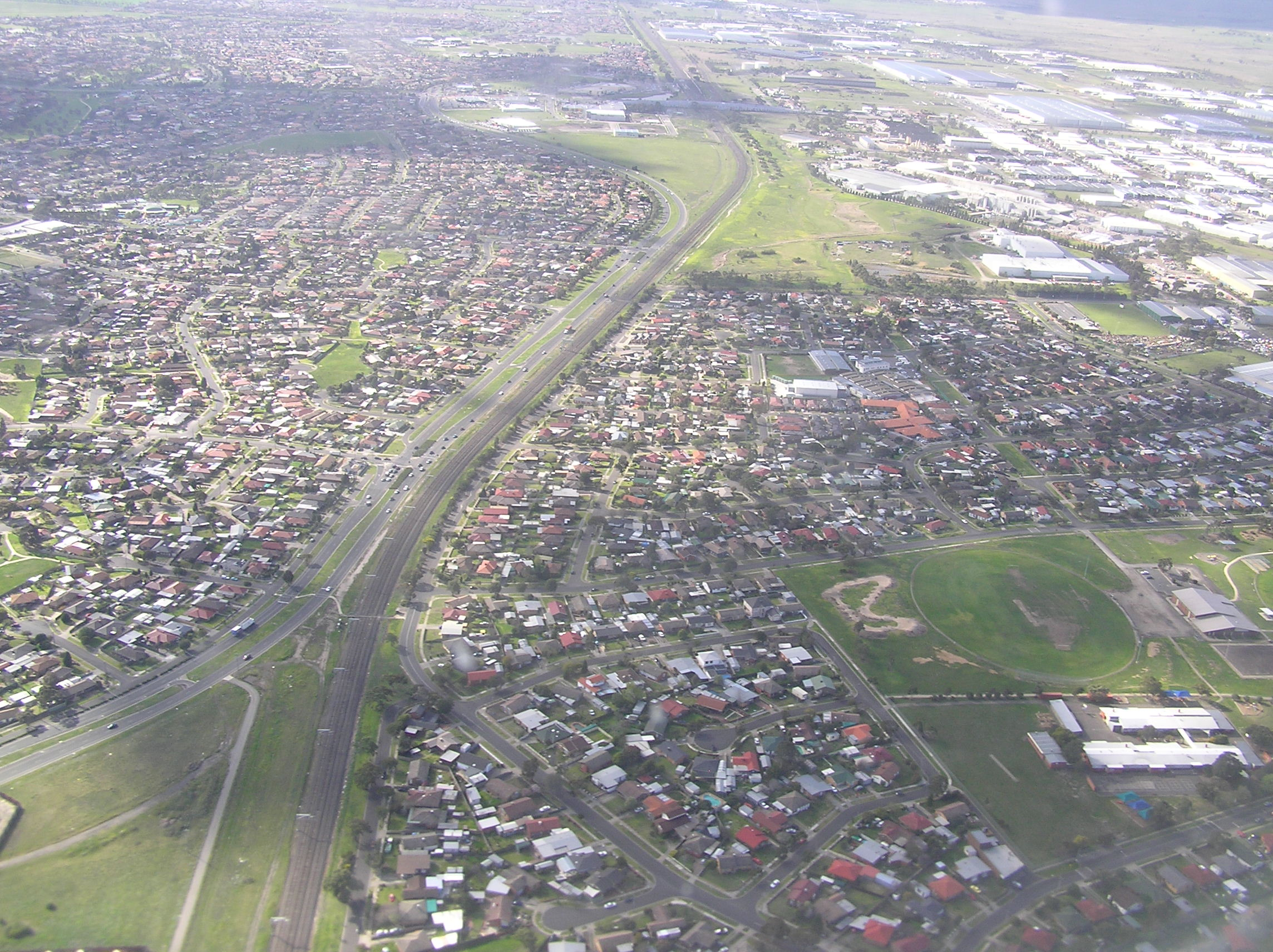 Coolaroo (on right ) and Meadow Heights (on left) aerial photo. Pascoe Vale Road and Craigieburn railway line is in the middle. Part of Melbourne Victoria. Coolaroo Station should be in the field of view if it existed then.